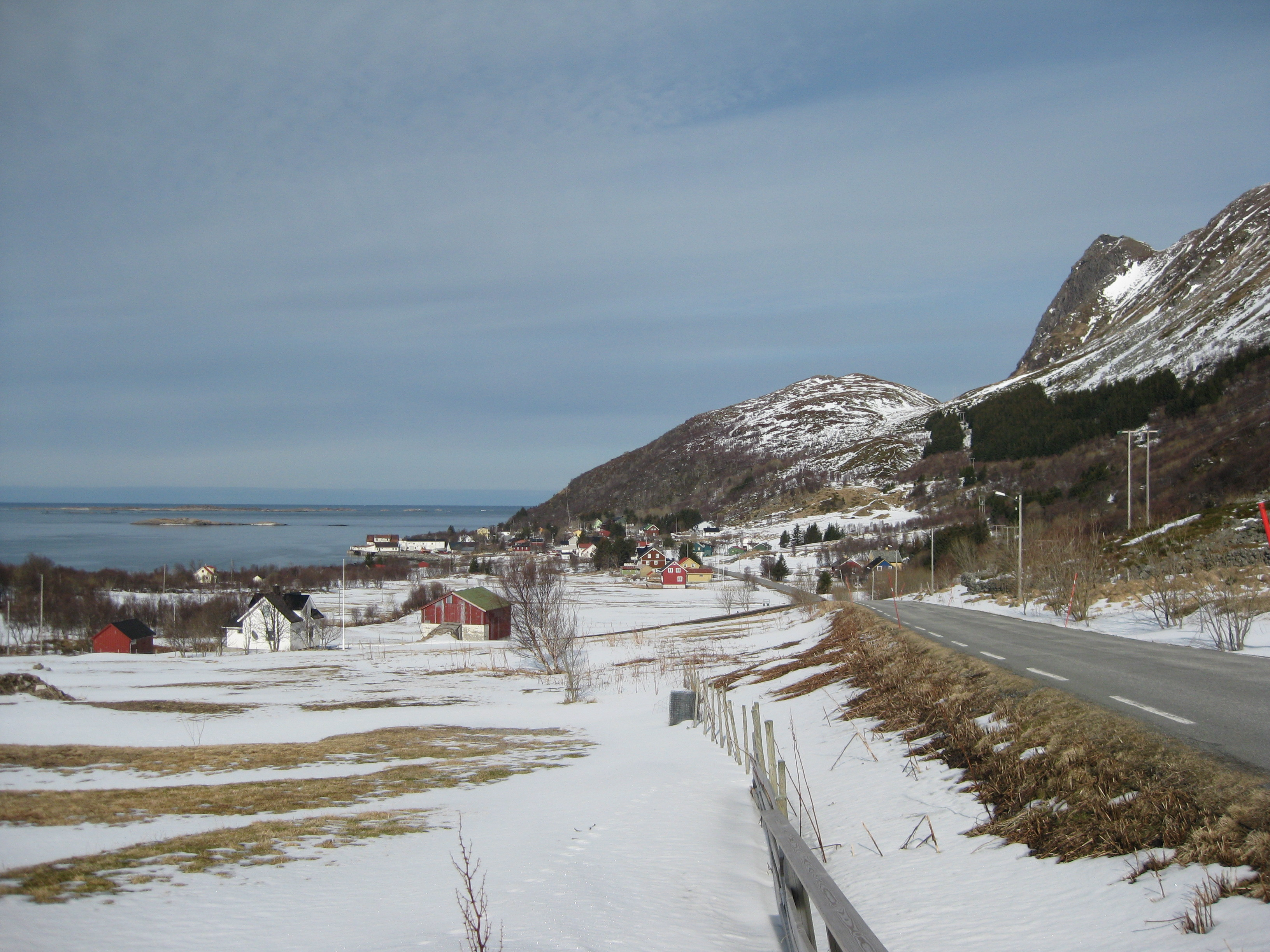 Modern picture from the same place as a similar picture of village Gravermarka from 1957.